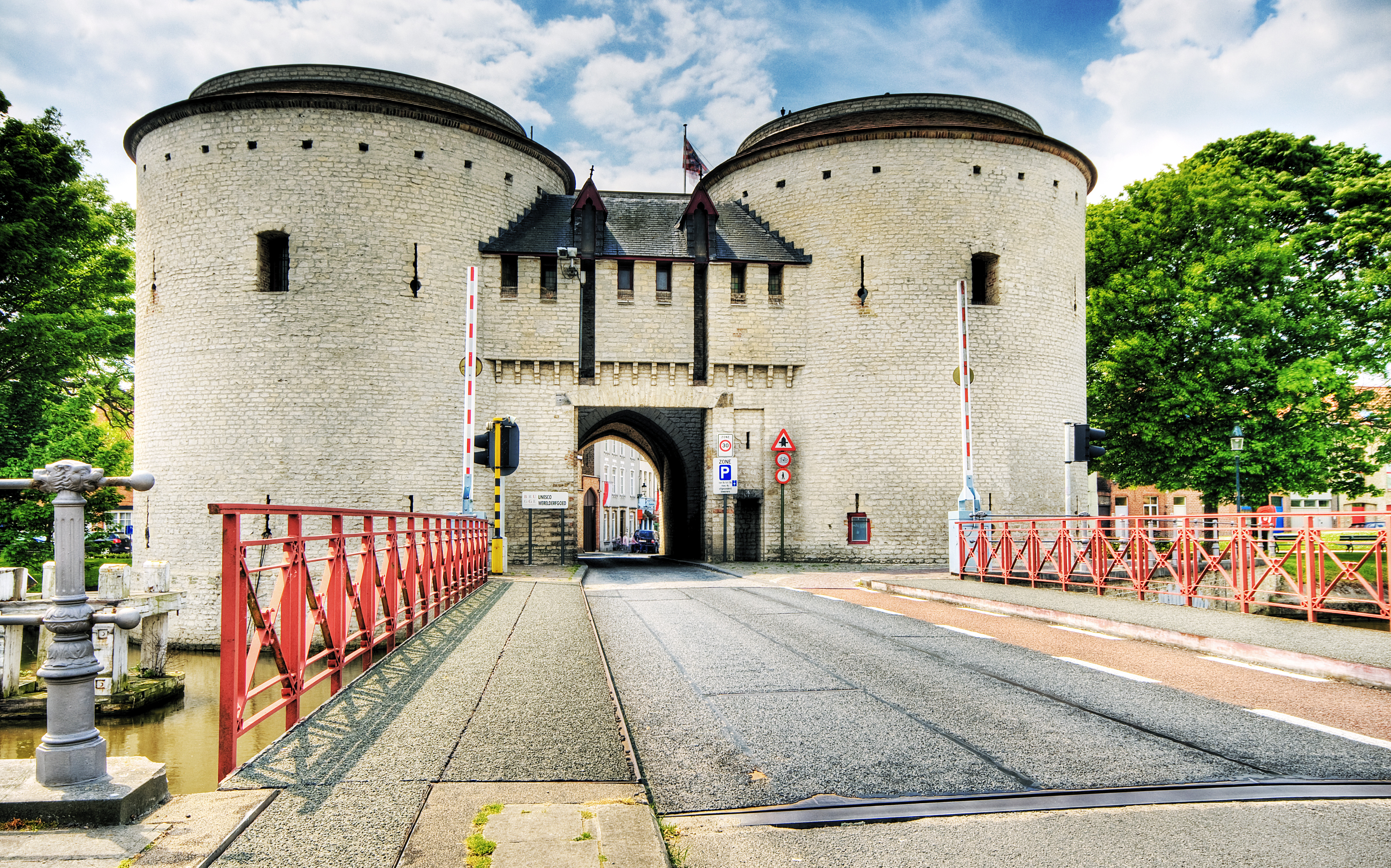 "Kruis" gateway in Bruges, seen from outside the city centre. Brugge, West-Flanders, Belgium.